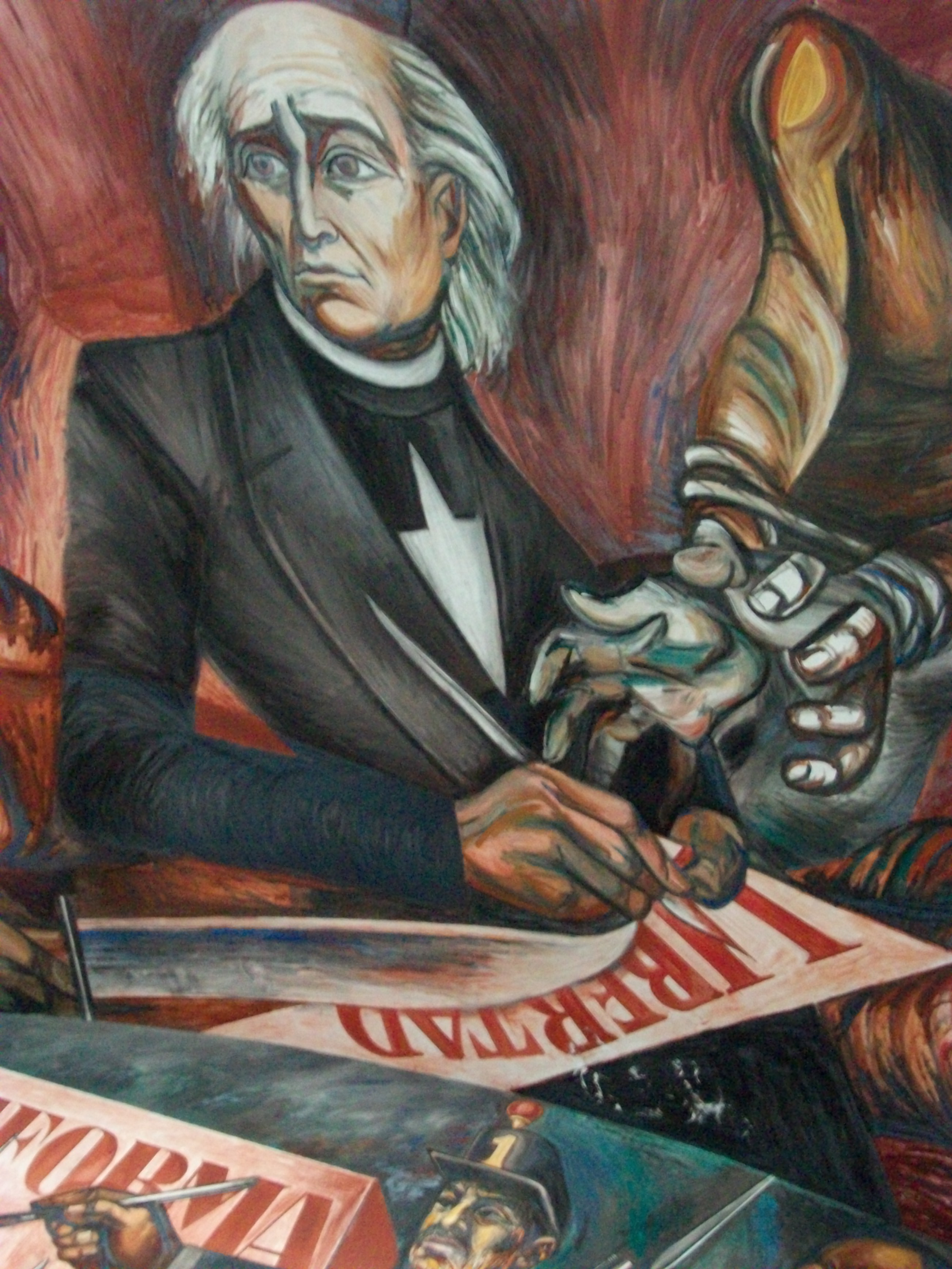 "La gran legislación revolucionaria mexicana y la abolición de la esclavitud". Mural by José Clemente Orozco painted in Guadalajara, Jalisco, Mexico between 1948 and 1949.